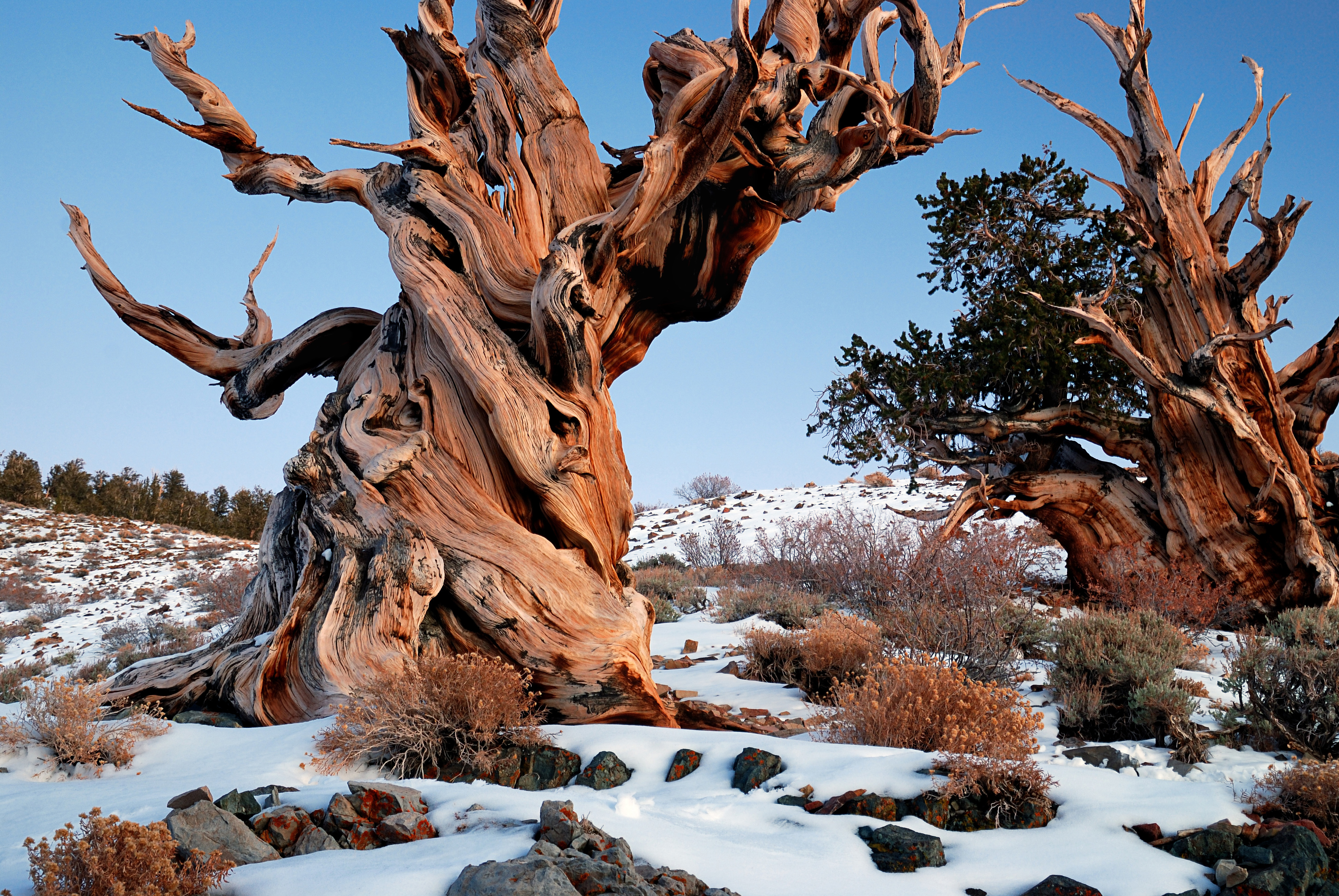 This is a long exposure taken after sunset in the Bristlecone Pine Forest of the White Mountains in California. This particular grove of bristlecones are the oldest living things on the planet, many of them are over 4000 years old and the oldest has been dated to over 4700 years.